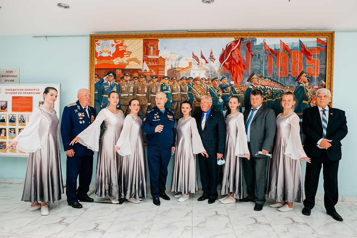 A Russian Air force day ceremony